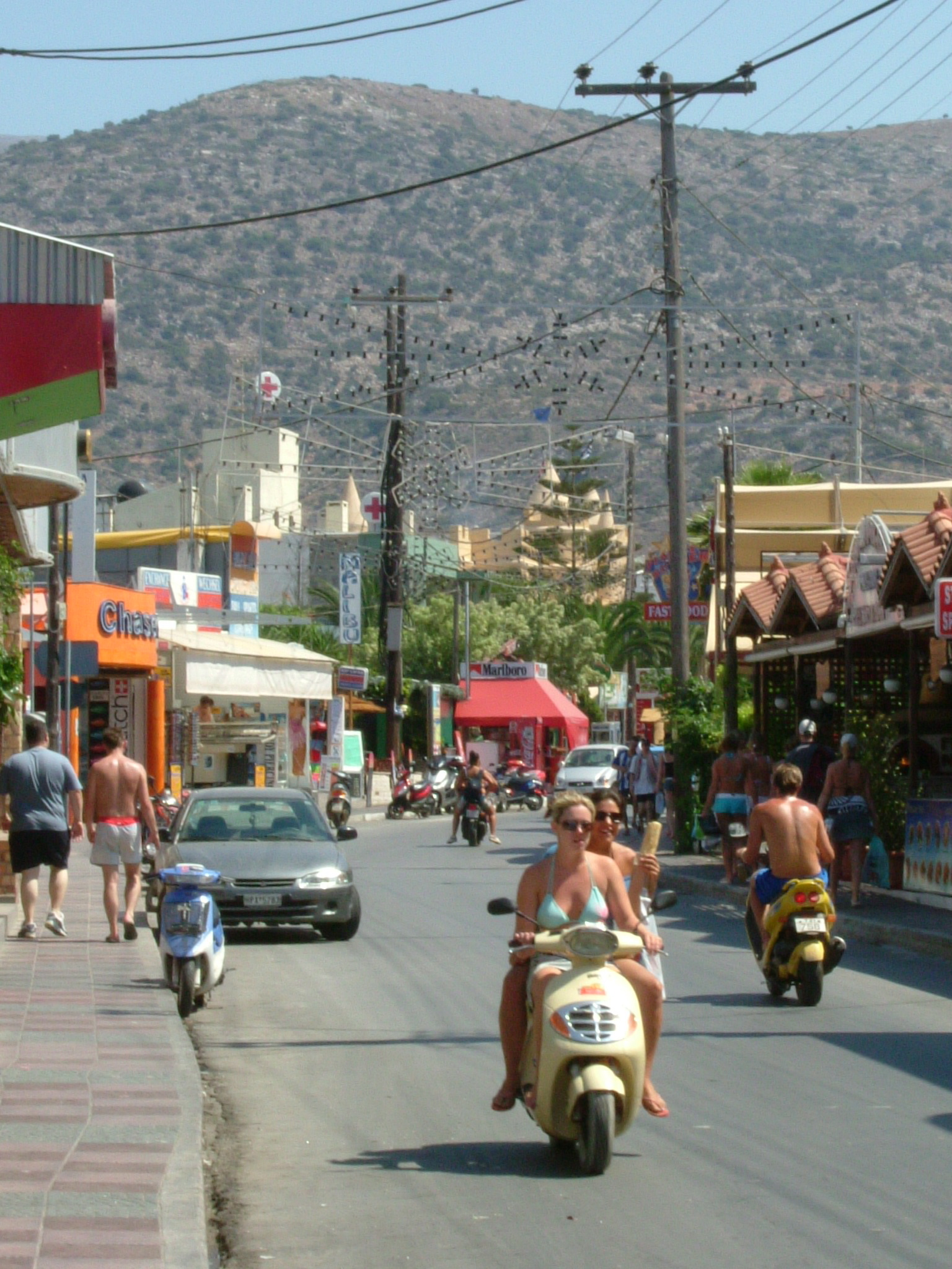 File called DSCF0146.JPG on Full licence given.